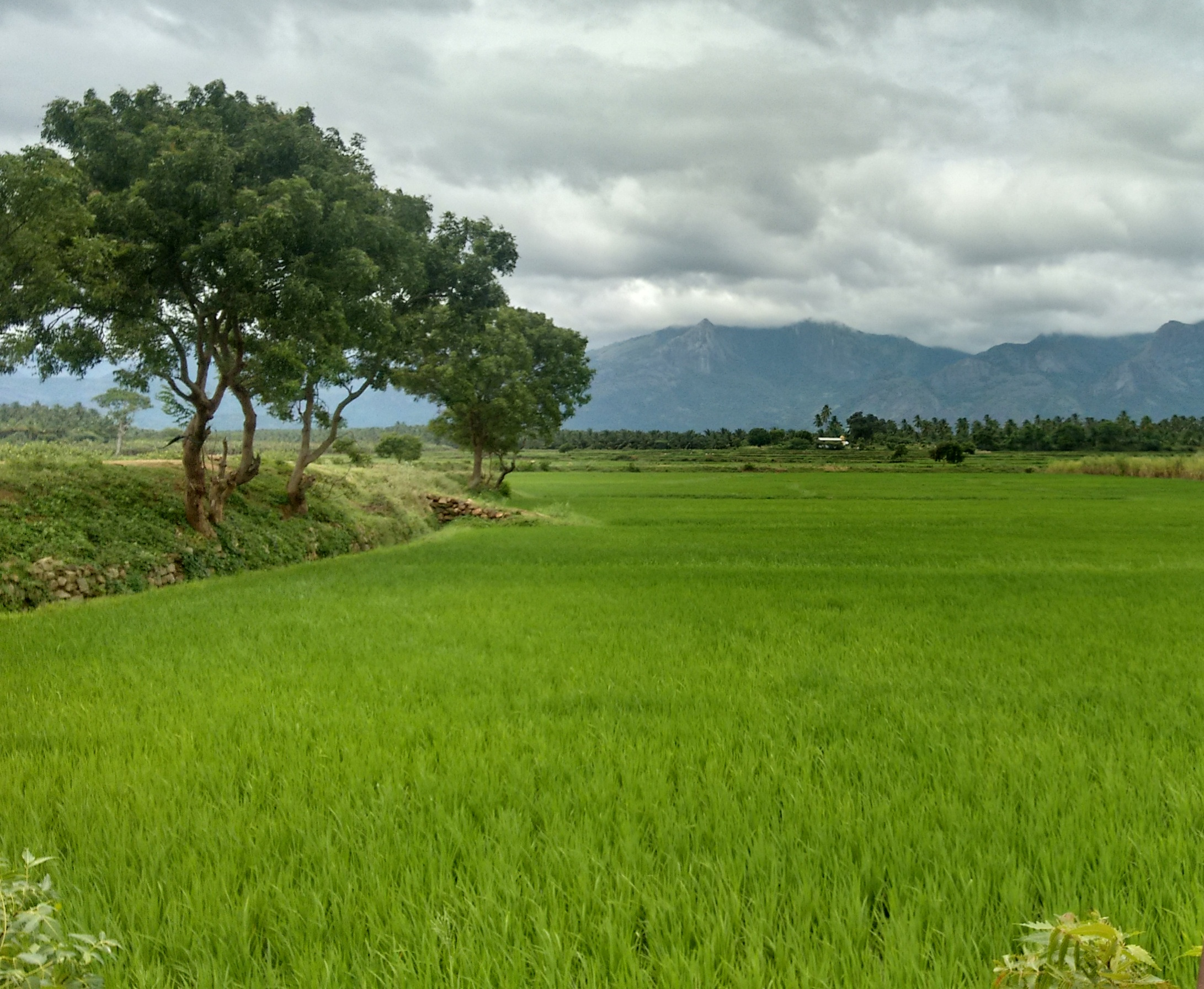 Pollachi town is about 40 Kms from Coimbatore,Tamilnadu on the way to Parambikulam - Aliyar Project. Next to Coimbatore it is the leading town of the district and an important commercial centre. Pollachi is a town and a municipality in the Coimbatore district of Tamil Nadu, India. Pollachi is the nearest town to Indira Gandhi National Park and it exports coconuts and tender coconuts to all over India.There are several coconut groves and hence it is called as ‘Coconut City’. ..The beauty of Pollachi is always breathtaking with it lush green paddy fields kissing the hills of anamalai